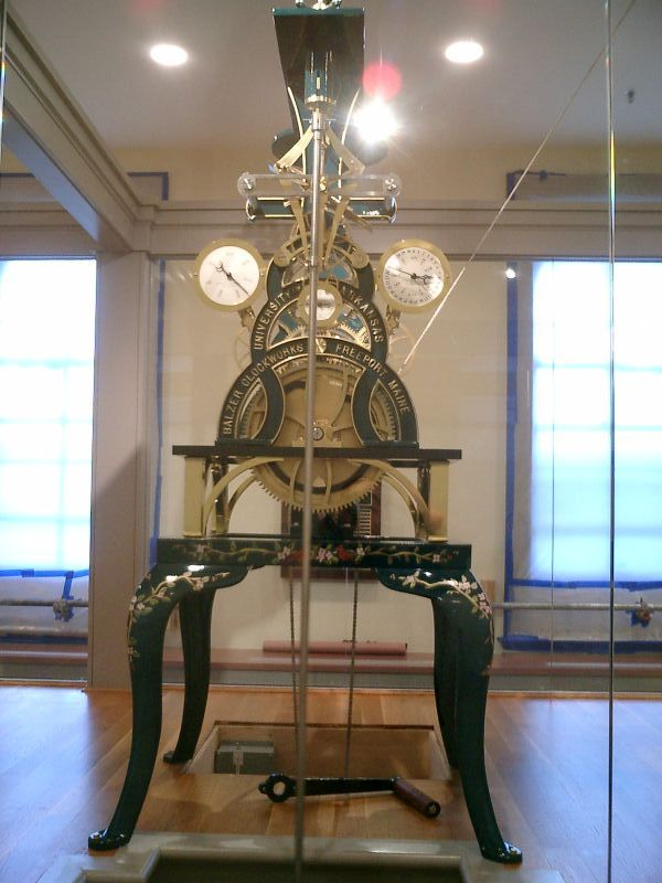 A picture of the clock mechanism in Old Main. Taken by author in Spring of 2006 on 4th Floor of Old Main, where the mechanism is on display.